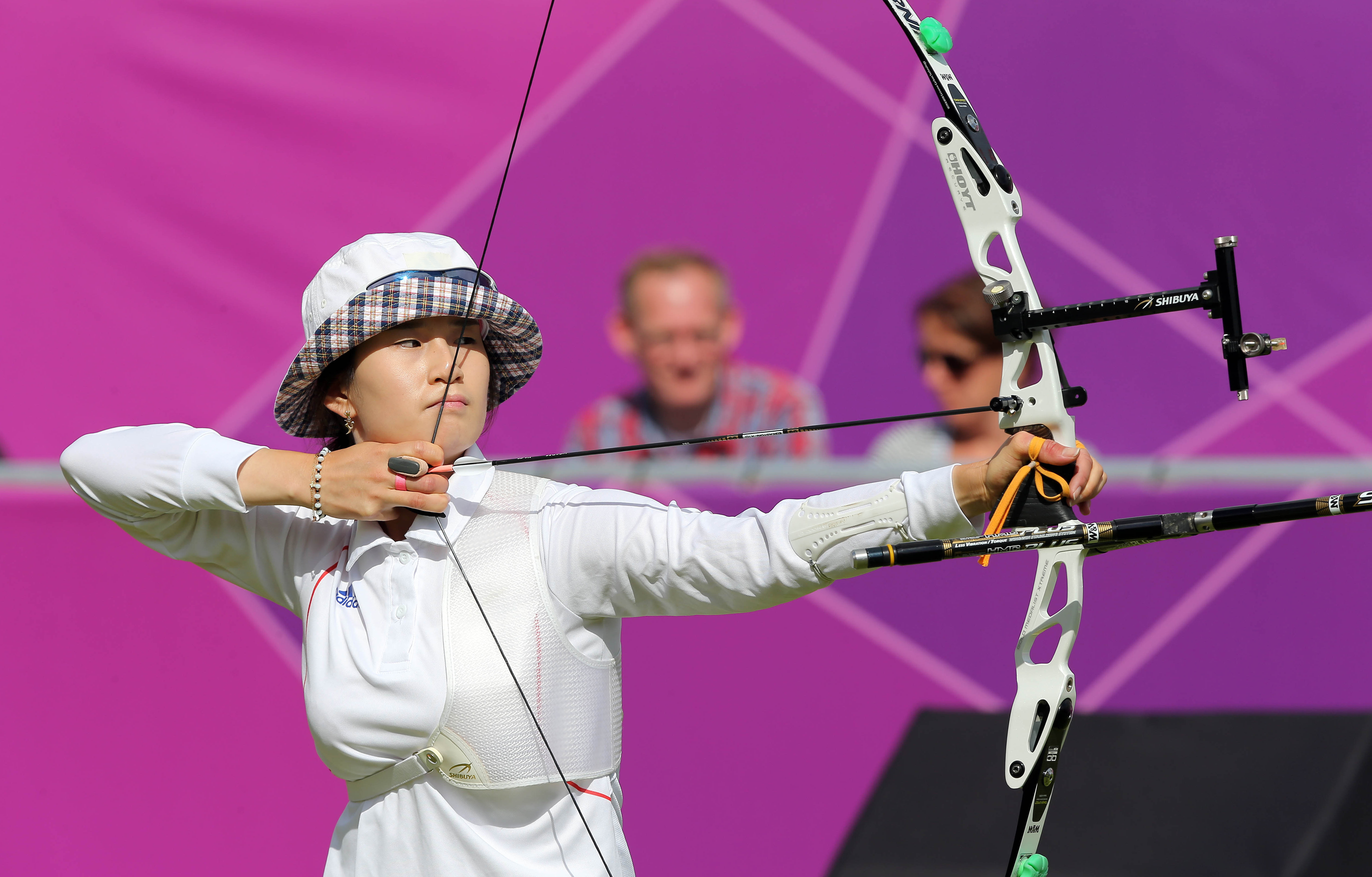 2012 London Olympic Games Korea Ki Bo Bae won the gold medal in women's archery 2012. 08.03. hoto by Korean Olympic Committee Ministry of Culture, Sports and Tourism Korean Culture and Information Service 2012 런던 올림픽 한국 여자 양궁 개인전 기보배 금메달 획득 사진제공 - 대한체육회 문화체육관광부 해외문화홍보원